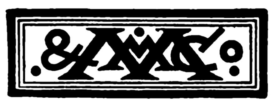 This logo appeared in Alexander Pope by Leslie Stephen, and many other books published by MacMillan and Co.